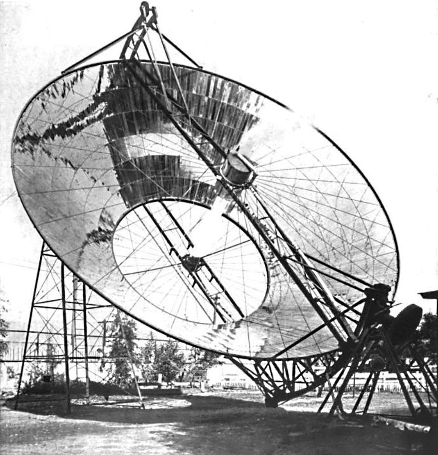 A solar powered steam engine to pump water on an ostrich farm in Los Angeles, California, around 1901.The parabolic mirror focuses sunlight on the boiler tubes suspended on the axis of the dish (white with reflected sunlight). The water in the tubes boils to produce steam, which powers a 10 hp engine at the base of the dish which drives the pump, after which the steam is condensed and recycled. The mirror is mounted on an altazimuth mount, and after being pointed at the sun in the morning a drive system turns the mirror slowly to track sun across the sky all day. The engine requires about an hour to build up a 150 psi head of steam. Information from Ray Stannard Baker (1903) Boys' Second Book of Inventions, McClure, Phillips Co, p. 153-172, has additional pictures.